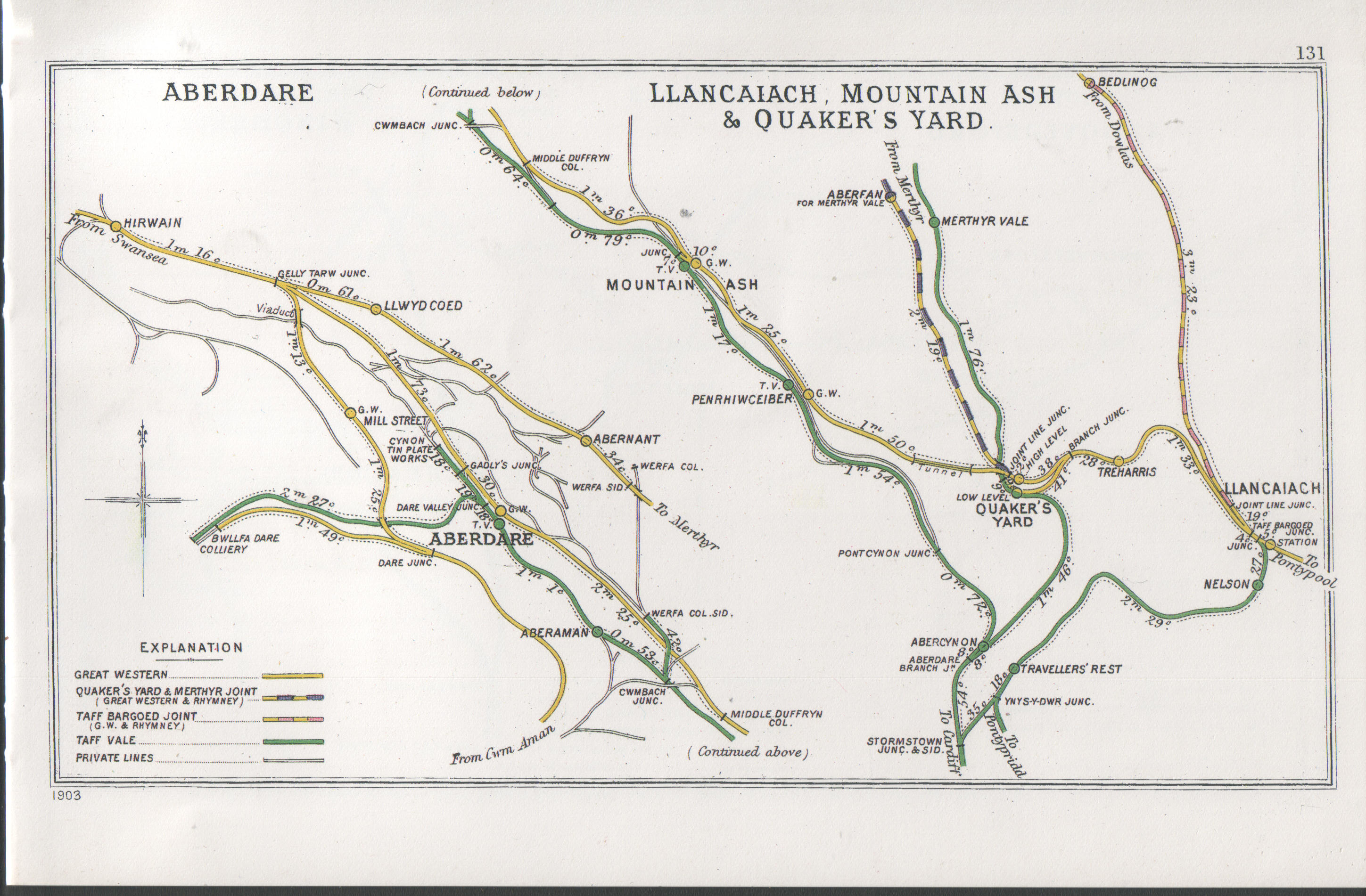 Pre Grouping railway junction around Aberdare; Llancaiach, Mountain Ash & Quaker's Yard